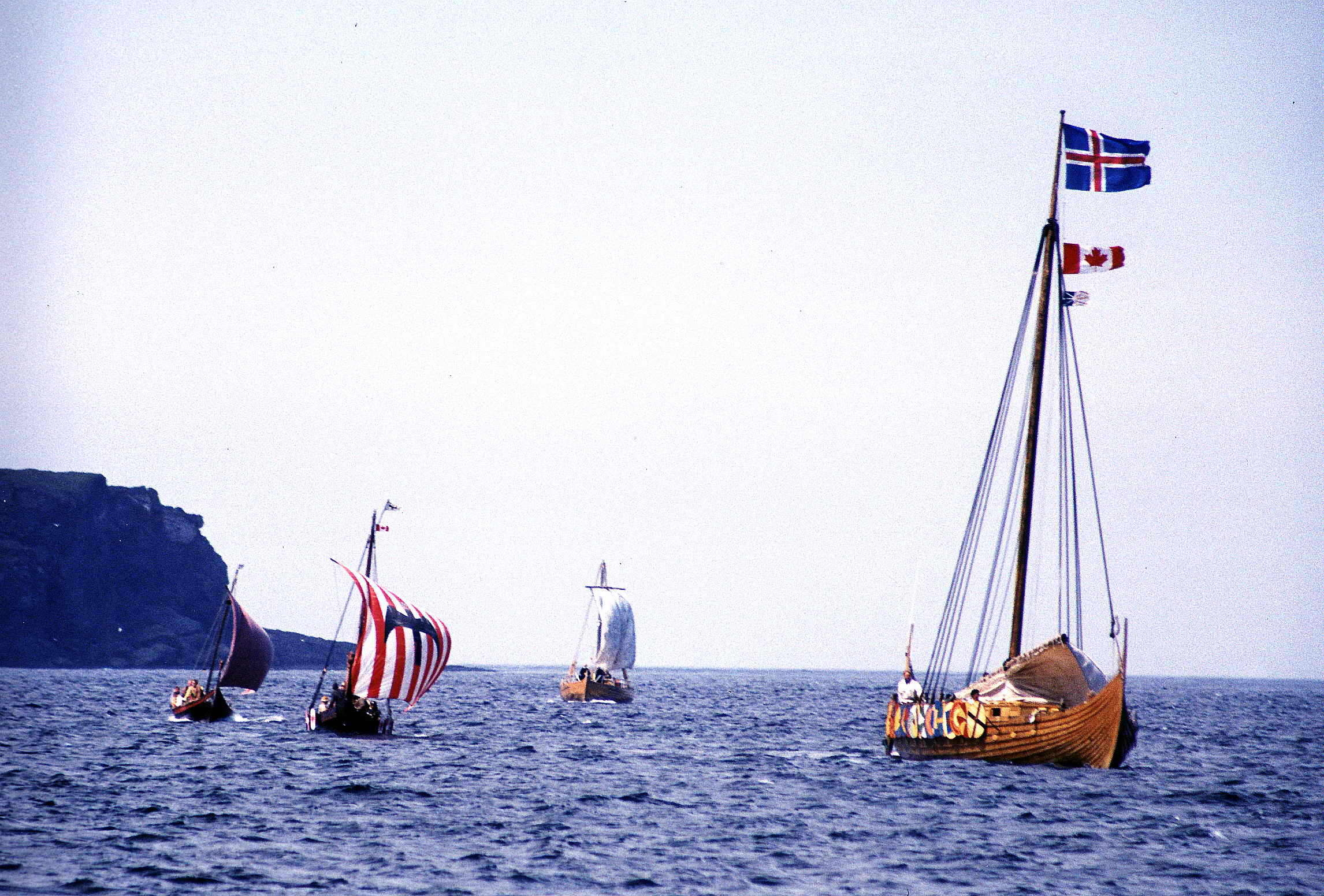 Reenactment of the Viking landing at L'Anse aux Meadows, Newfoundland, Canada, 2000. The foremost longship is flying, from top to bottom, the flag of Iceland, the flag of Canada, and the flag of Newfoundland and Labrador. Quotation (John Hill): This picture was taken by my sister, Joyce Hill, who gave permission to use it.